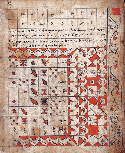 A page from the Kutika manuscript, written in the Lontara script.